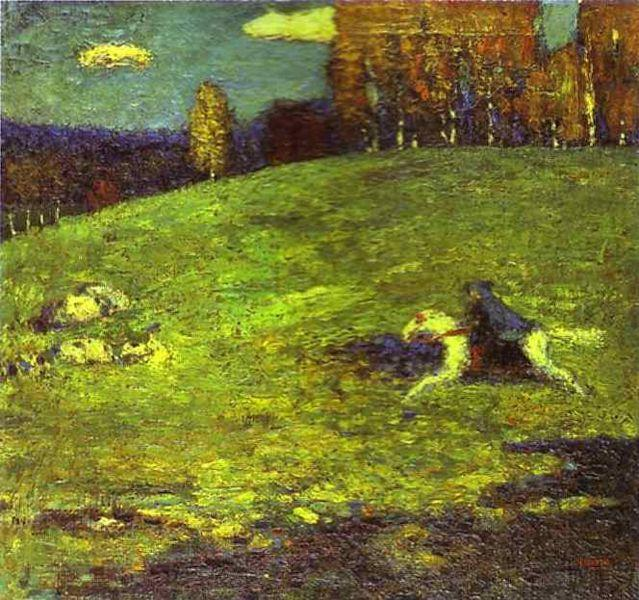 Der Blaue Reiter (The Blue Rider), a 1903 painting by Wassily Kandinsky